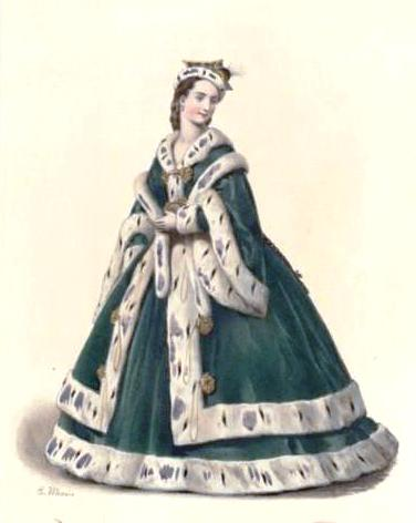 Madame Monrose as Olga in Daniel Auber's opera La Circassienne